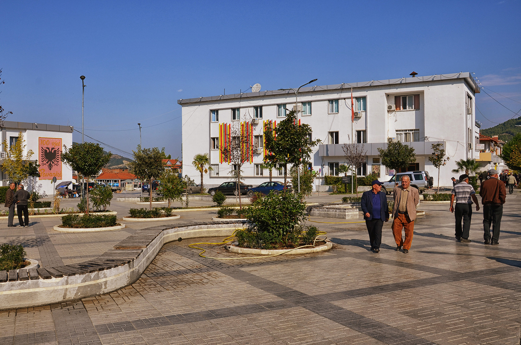 The main square of Gramsh, Albania with the Municipality Hall